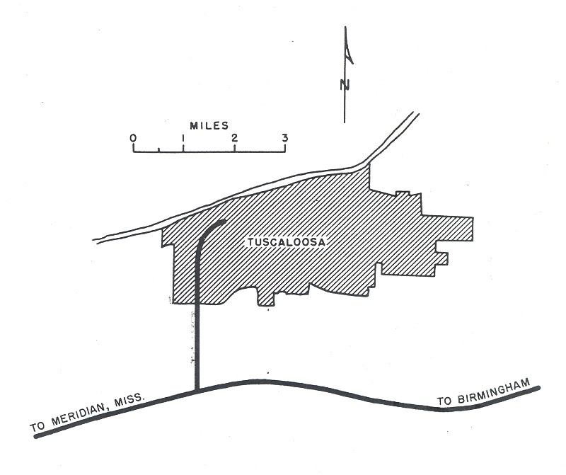 City map from the 1955 "Yellow Book" of Interstate Highway System plans Interstates in today's terms I-59 I-359